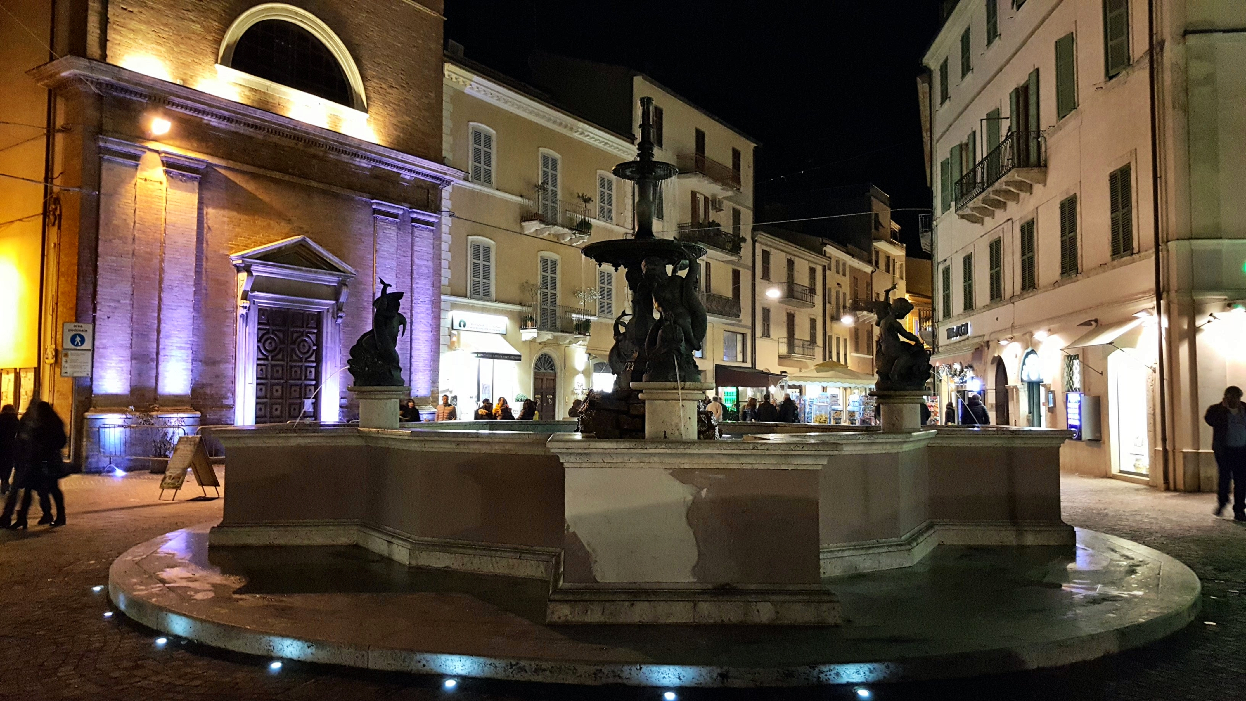 San Benedetto del Tronto, piazza Giacomo Matteotti the fountain and the Church of S. Giuseppe.